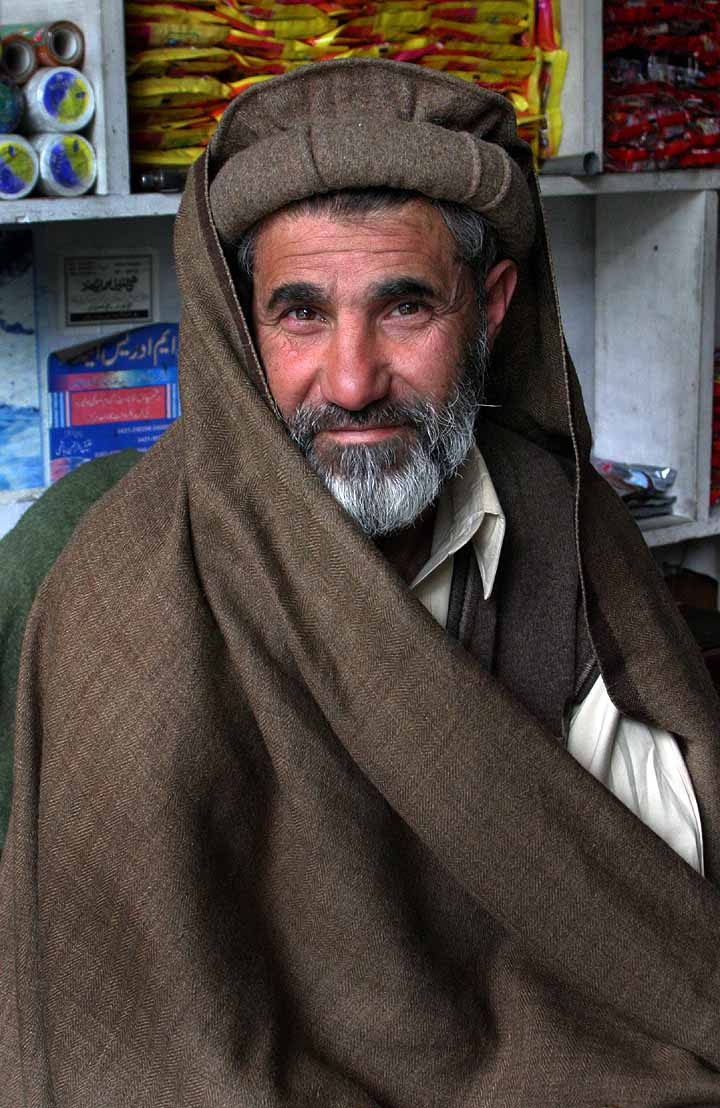 A man from northern Pakistan in 2007.